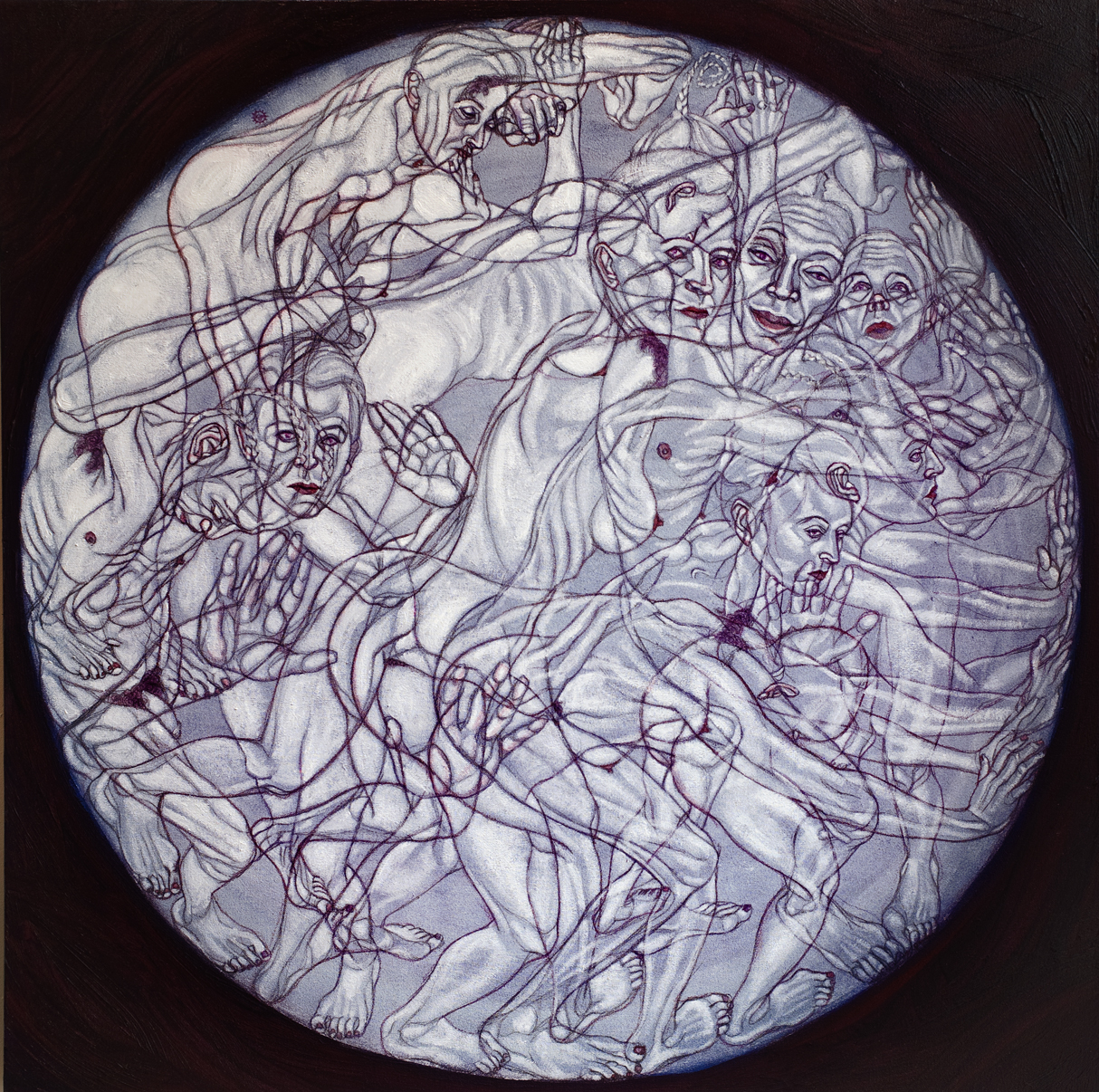 Sol Kjøk, "Getting There", 2013. Oil and crayons on canvas, 40” x 40”.